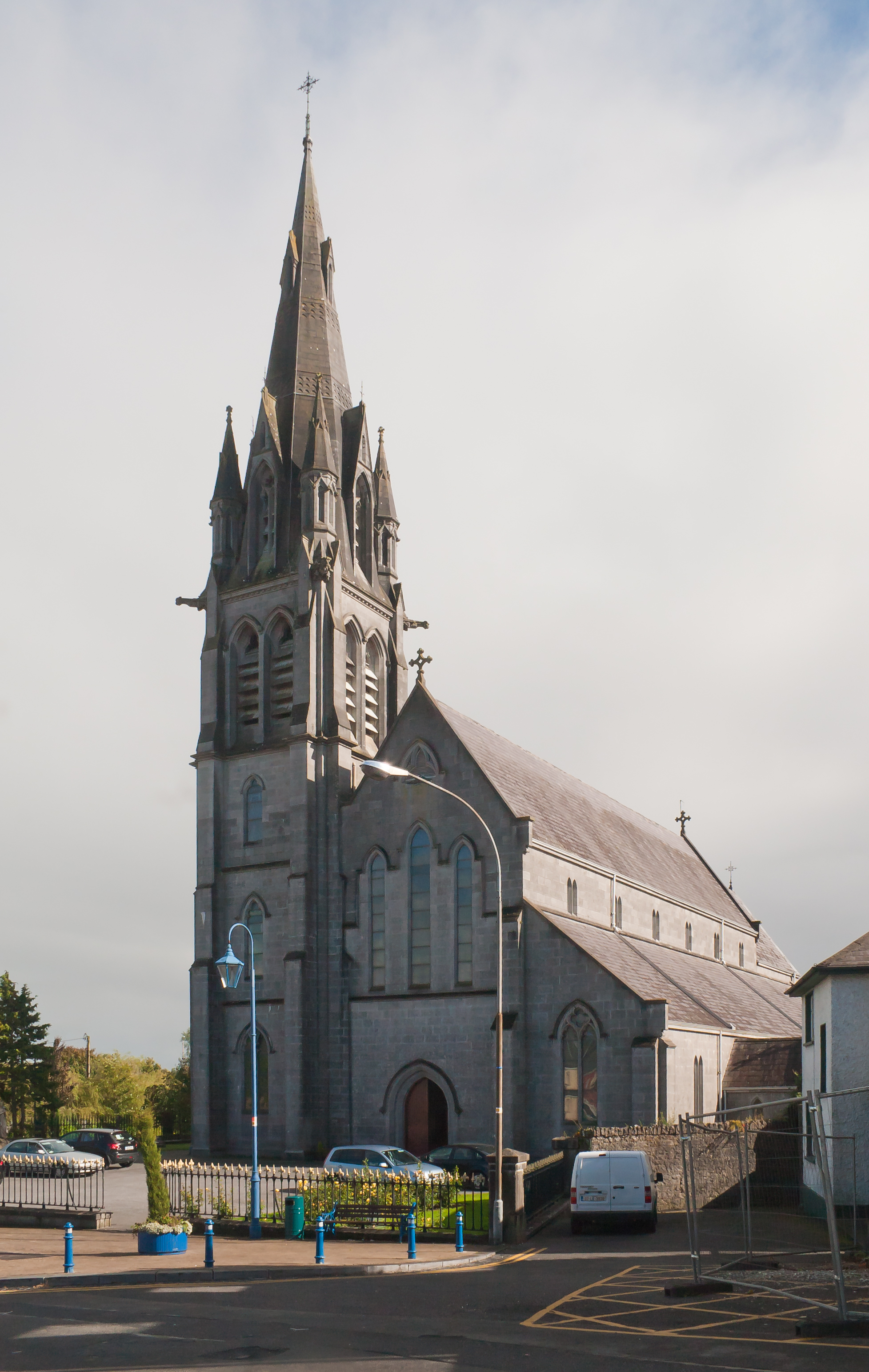 West view of St. Michael's Church.